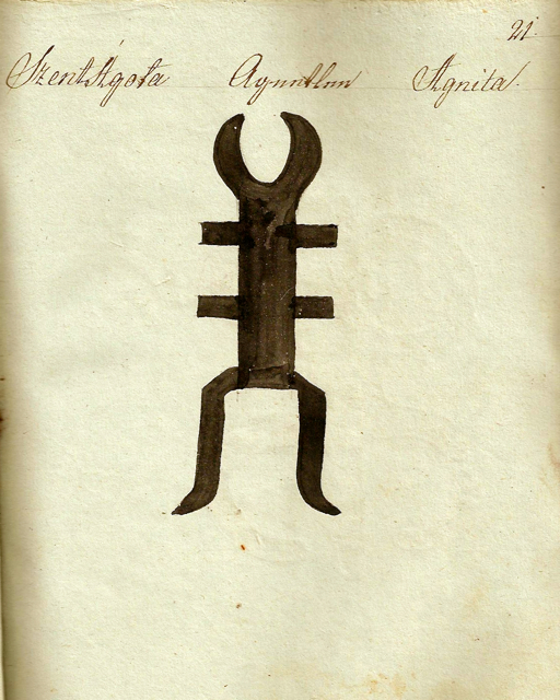 Cattle brand of Agnetheln/Agnita/Szentágota